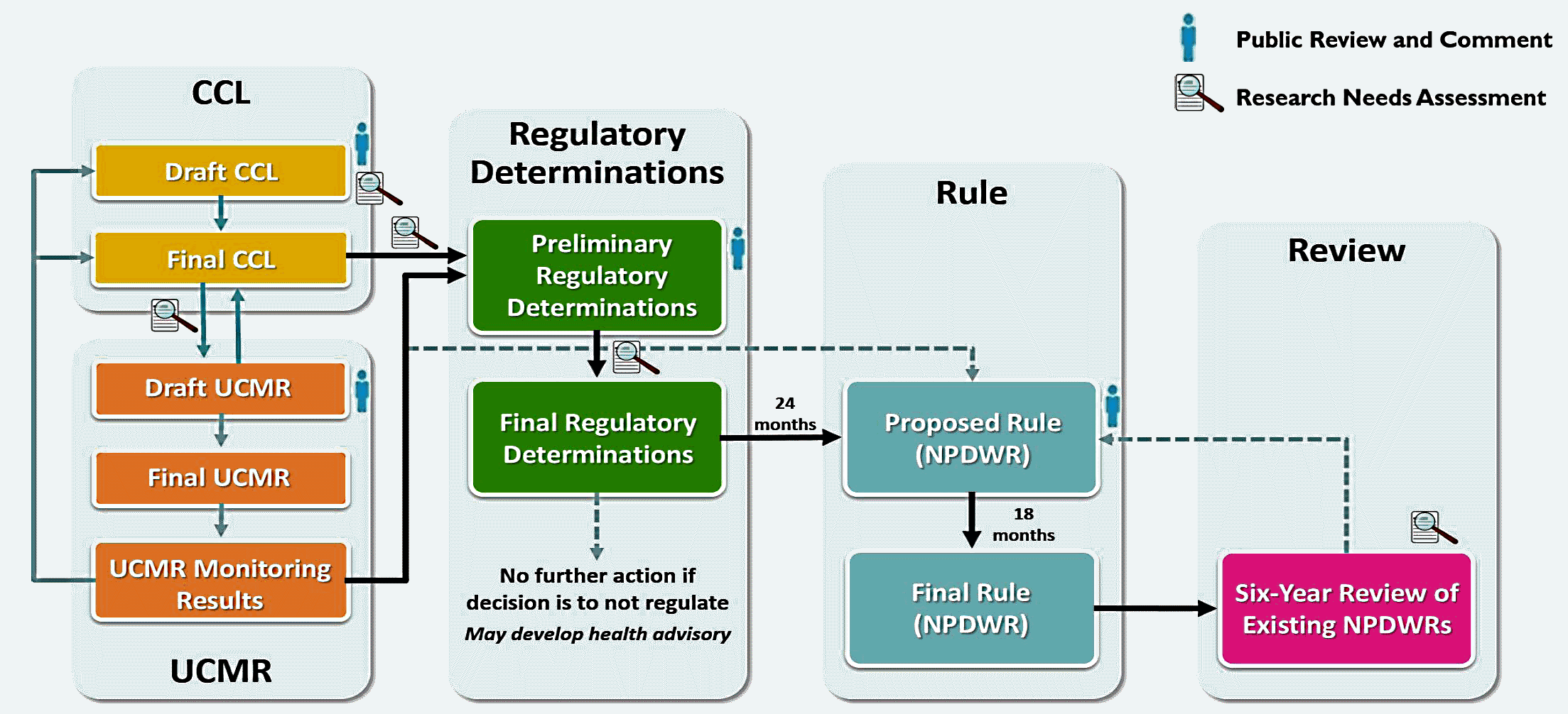 Flowchart, "General Flow of Safe Drinking Water Act Regulatory Analysis Processes."